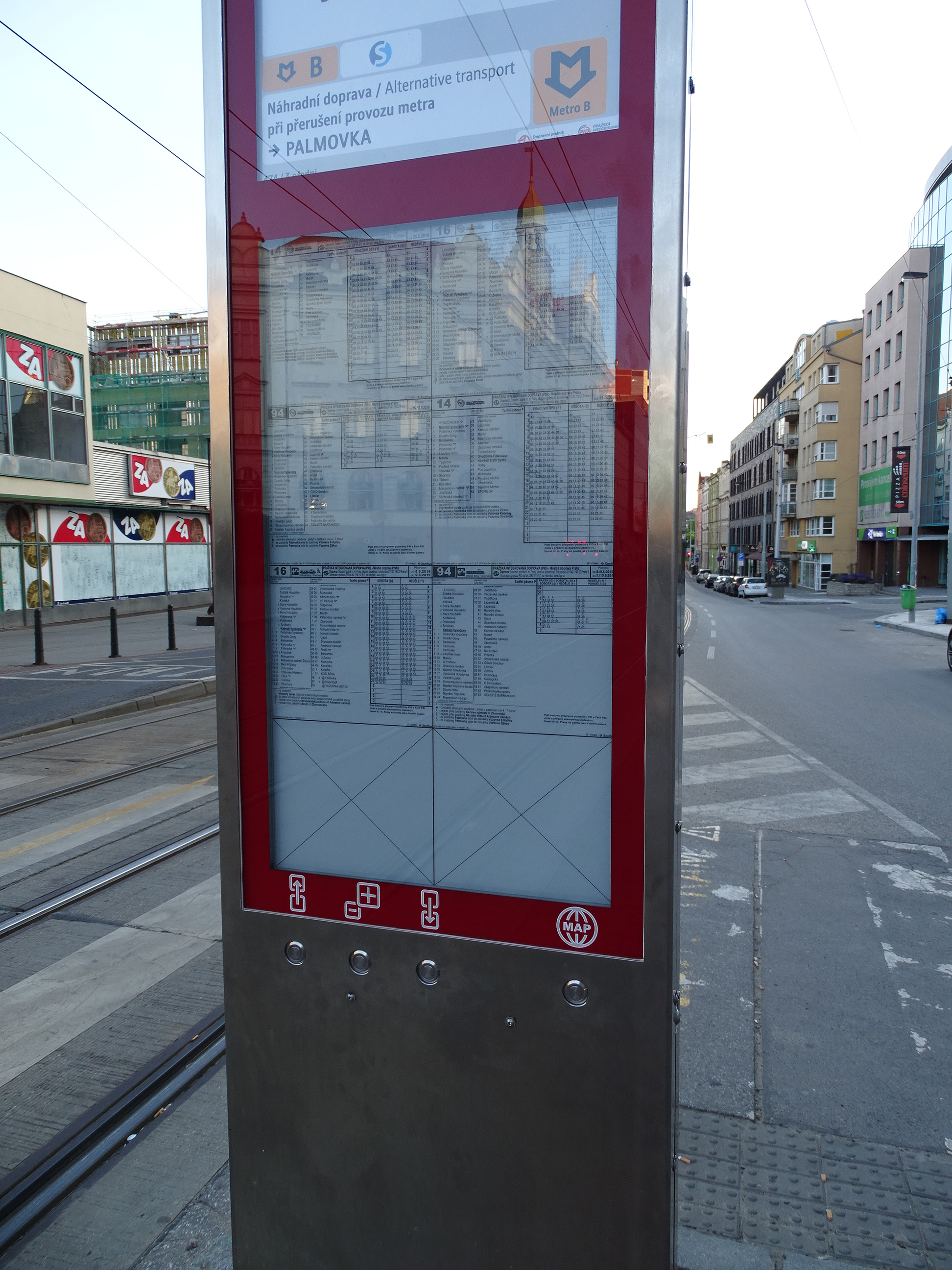 Prague-Vysočany, the Czech Republic. Sokolovská street, tram stop Nádraží Vysočany. A tram stop sign prototype, displaying timetables and line numbers using e-paper technology.